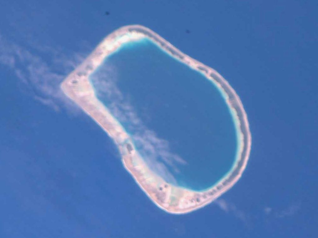 NASA Astronaut Image of Tuanake Atoll (Tuamotu Archipelago, French Polynesia) in the Pacific Ocean